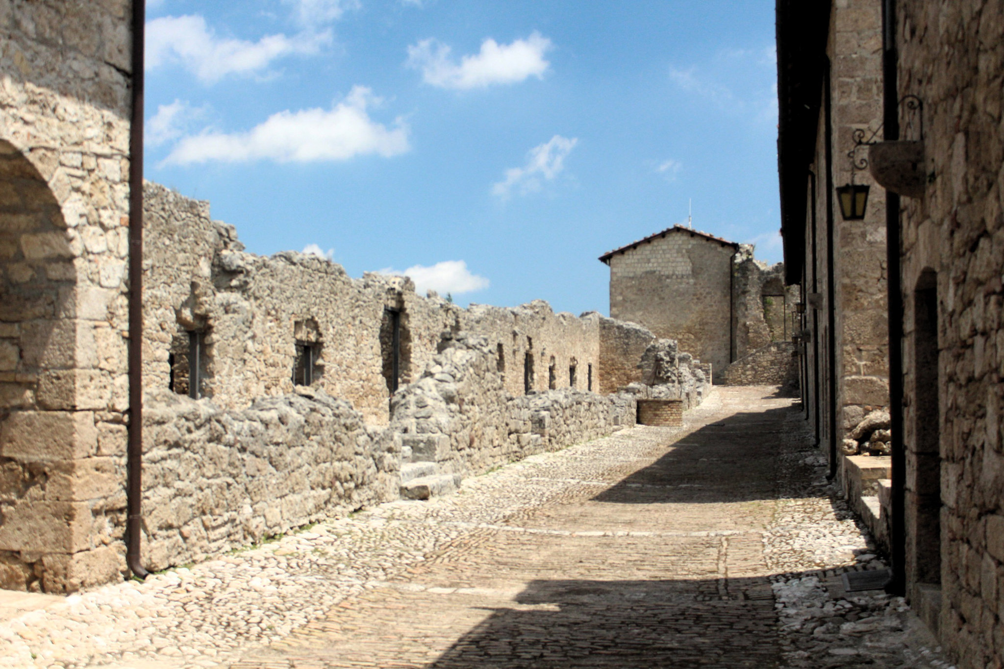 This image has been originally created as the illustration for προπύργιο entry in crosswords dictionary . It has been released under CC-BY-3.0 license.